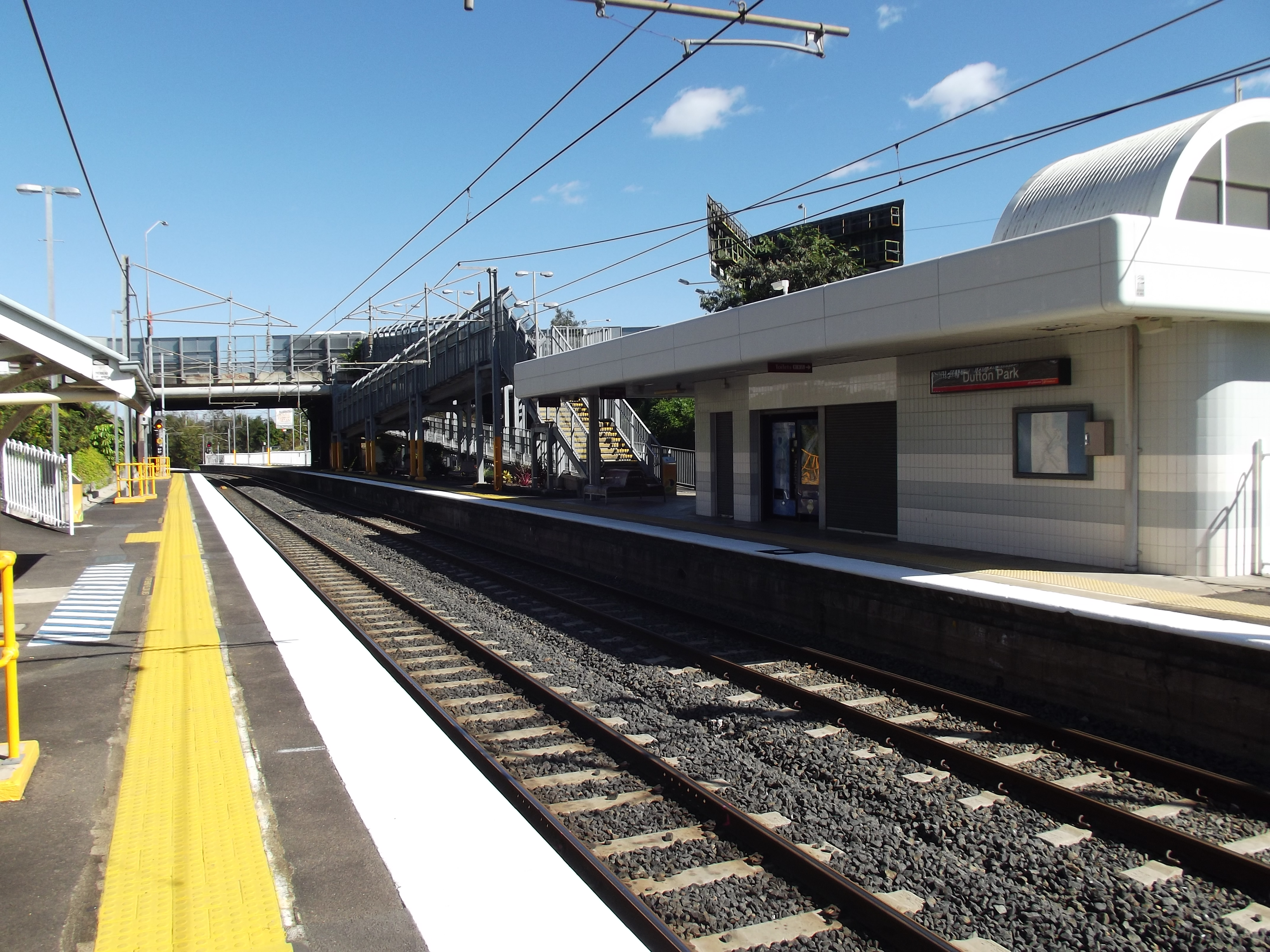 A photo of the Dutton Park railway station, operated by TransLink, located in Brisbane, Queensland.